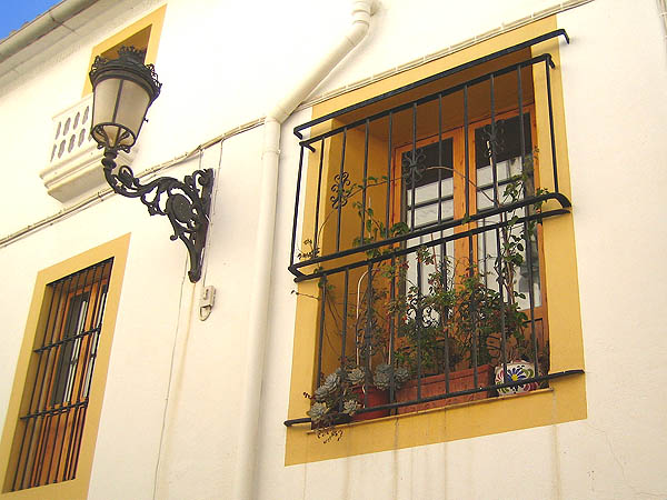 detail of a house in Teulada, county Marina Alta, Region of Valencia, Spain.